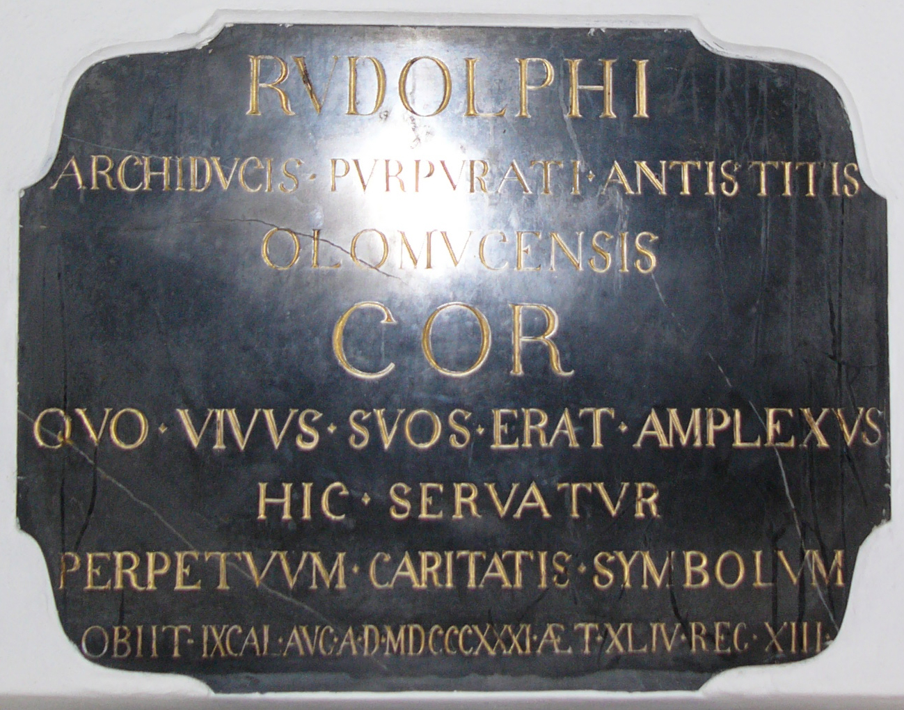 Memorial plaque of archbishop of Olomouc Rudolf Jan in the crypt in St. Wenceslaus cathedral in Olomouc (Czech Republic). Behind the plaque is his heart.